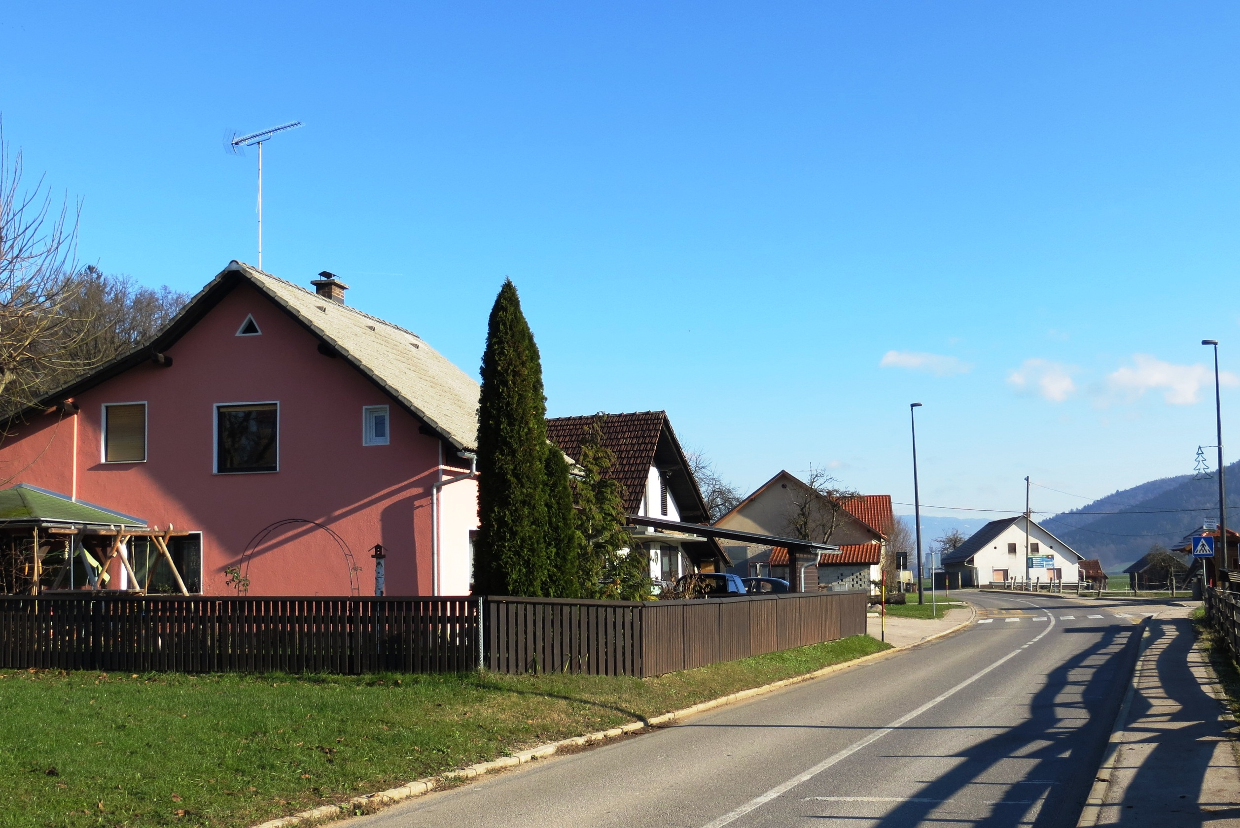 Vojsko, Municipality of Vodice, Slovenia